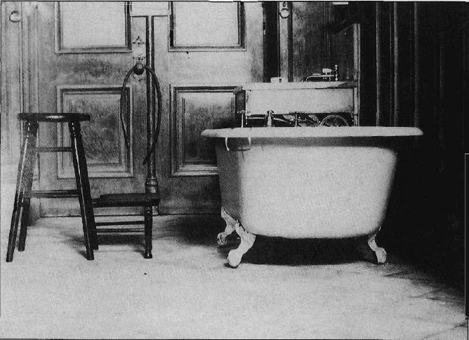 Slide No. 57 from copyrighted slide show (copyright now expired), dated Nov. 11, 1911, showing a washing and anointing room of the Salt Lake Temple of The Church of Jesus Christ of Latter-day Saints, taken June 1911 by Gisbert Bossard.